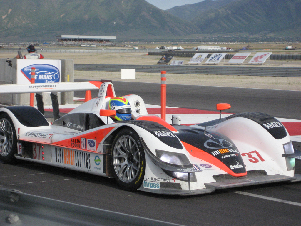 Photograph of a Creation CA06/H run by Intersport Racing